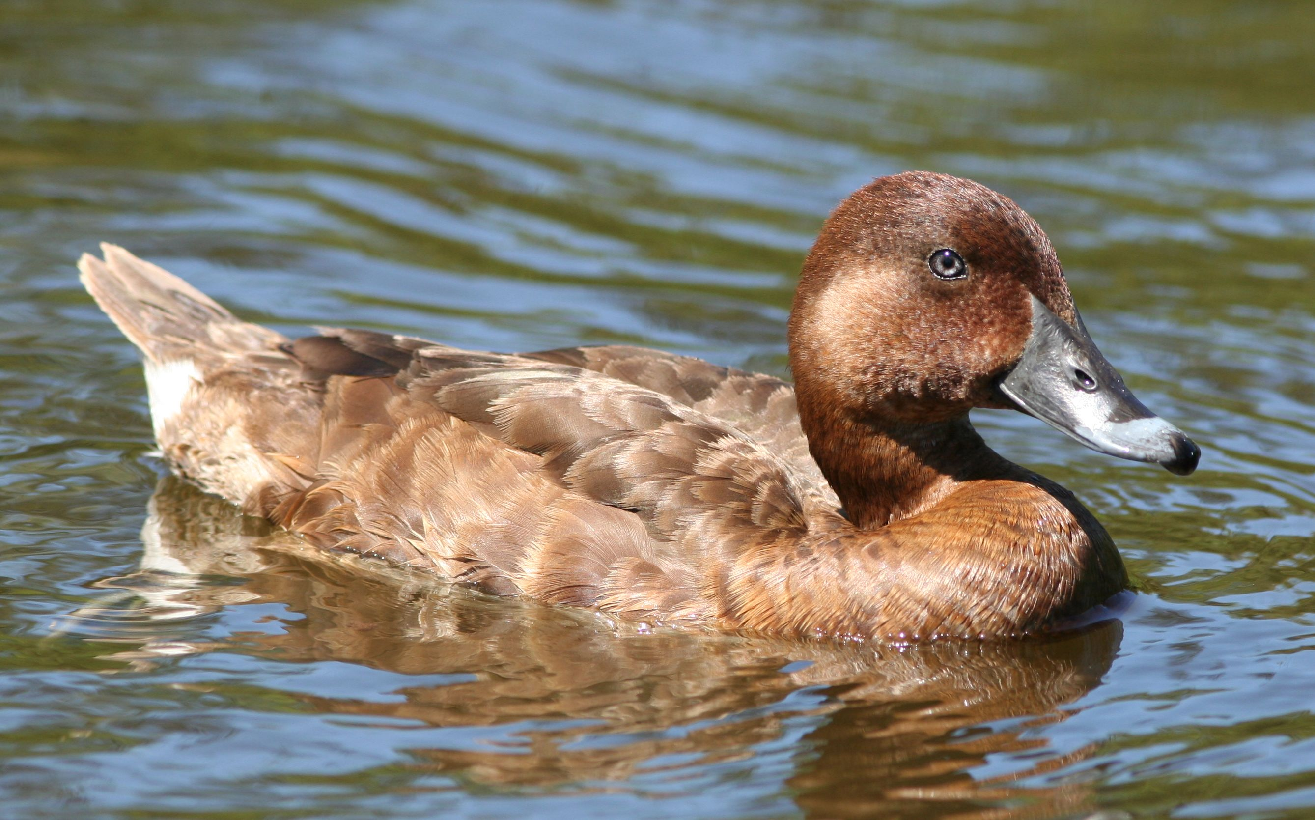 Hardhead Aythya australis, female (not an unmature one - it shows the slightly brown eyes and the dull blue-grey band across the tip as females do), Brisbane, Australia.